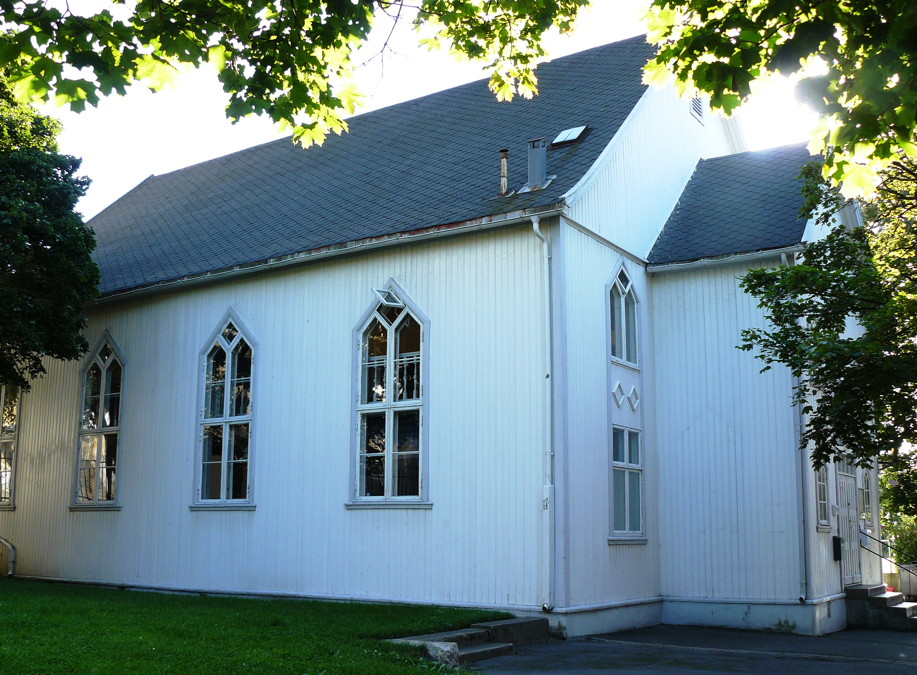 Kampen parish house, Oslo